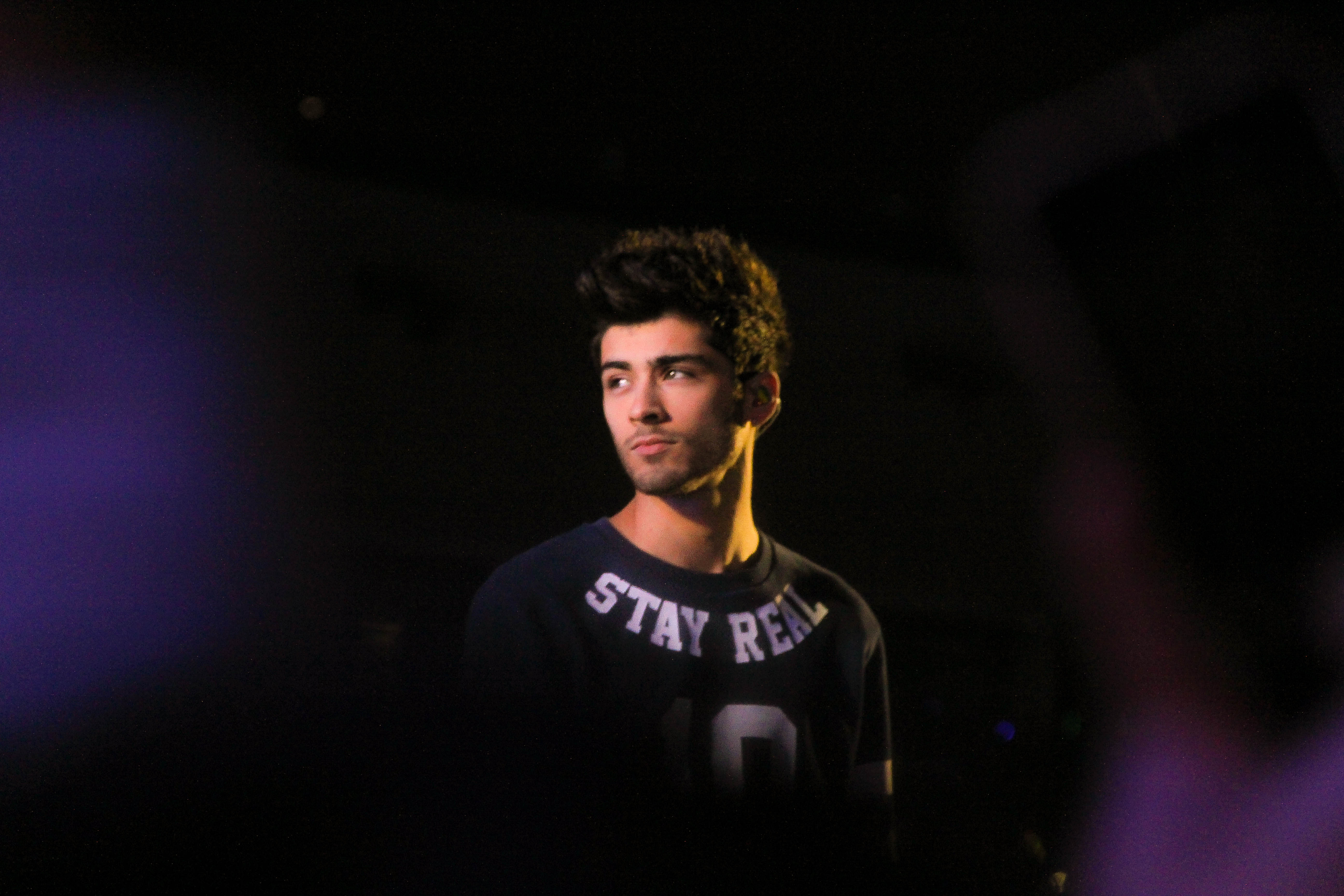 Zayn Malik in concert (WWAT 2014) - Chile